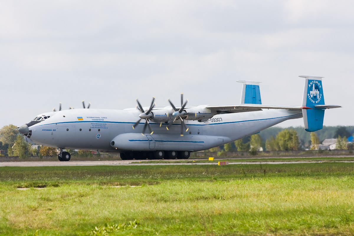 Antonov An-22